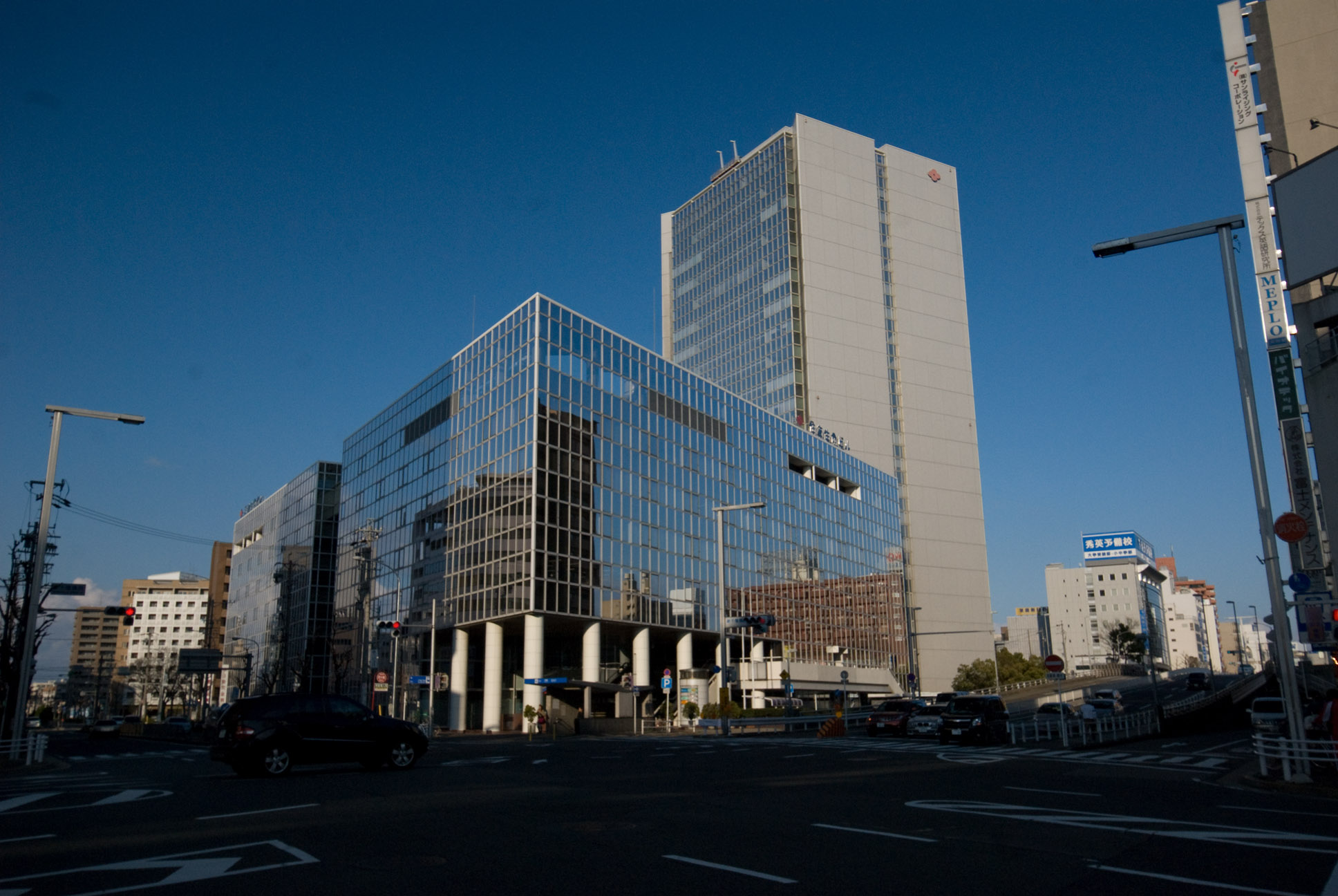 Sumitomo Life Insurance Chikusa Buildings